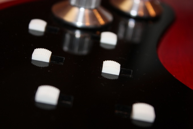 Detail of a Red Special switches.